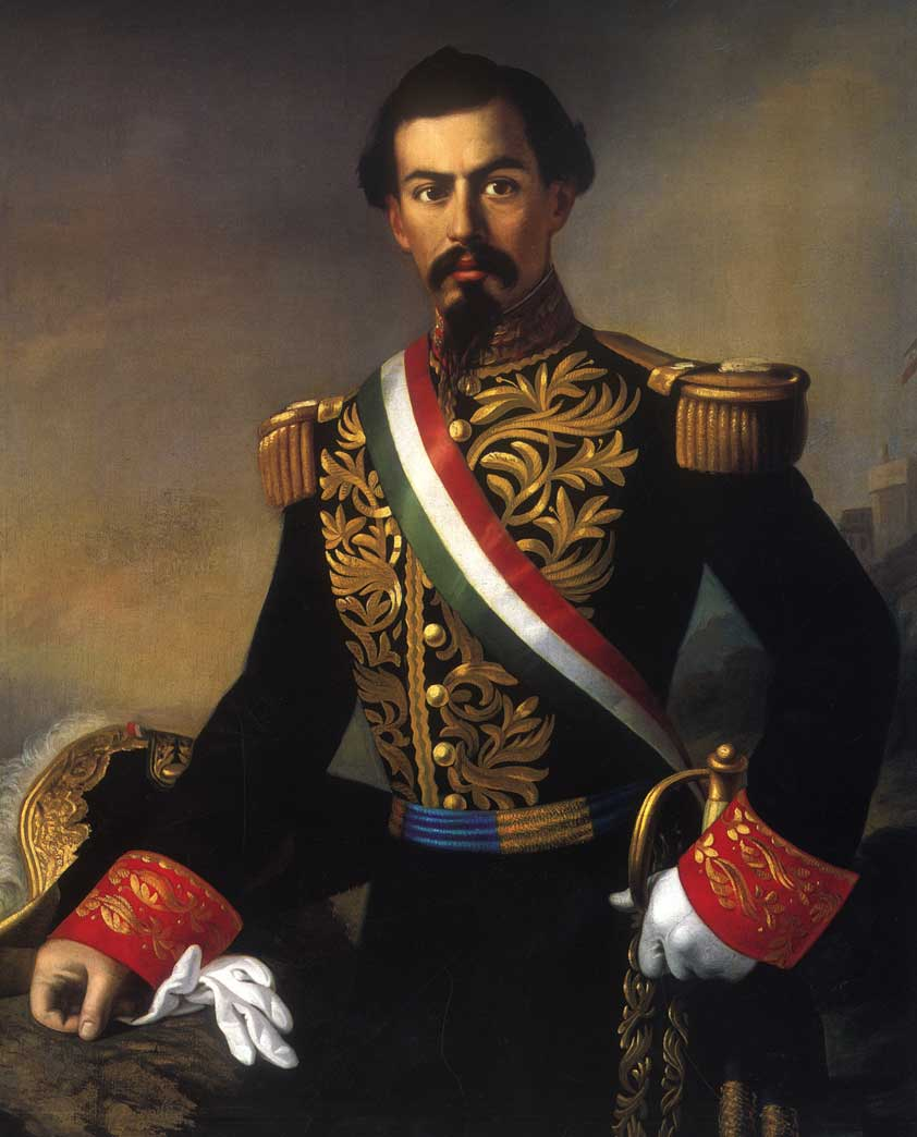 General Miguel Miramón (1832-1867)